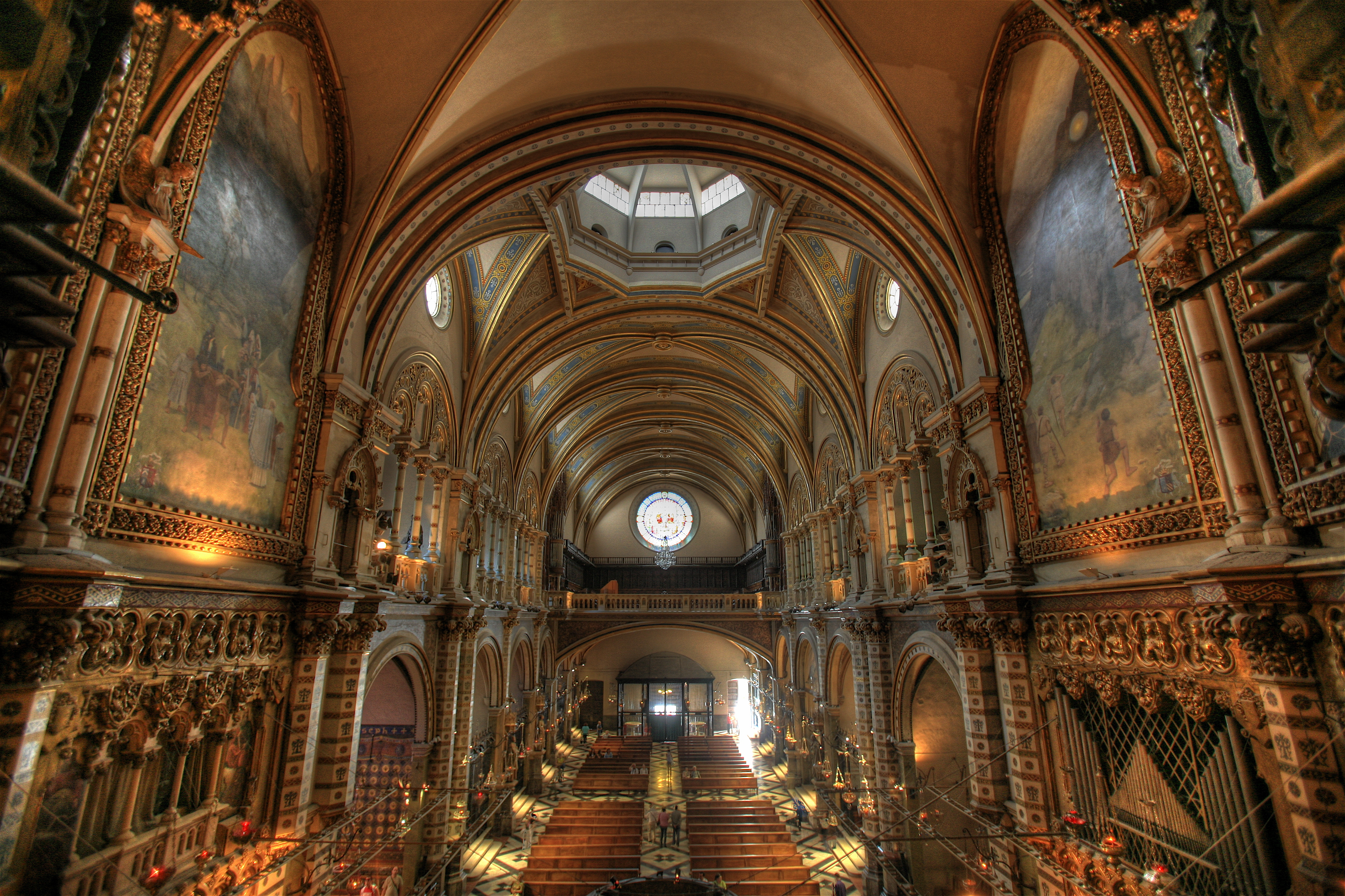 Interior of the church